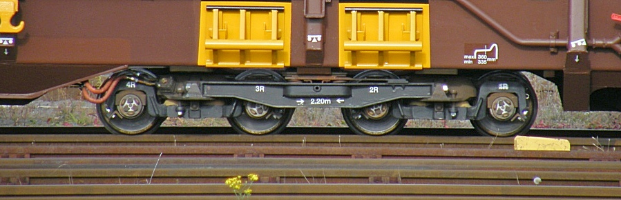 bogie of a "Rollende Landstraße" lowfloor freight car